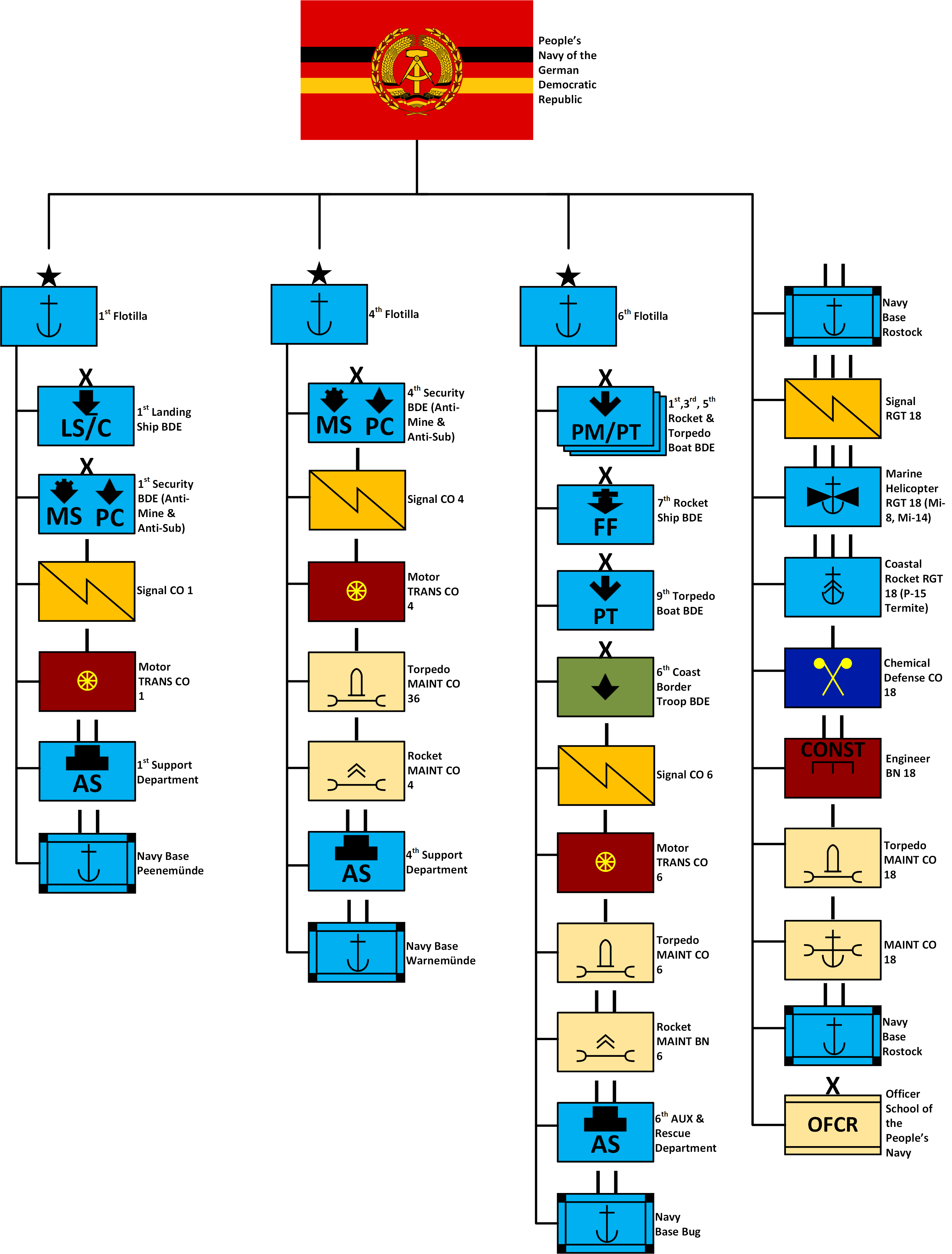 Organization of East German Navy circa 1988